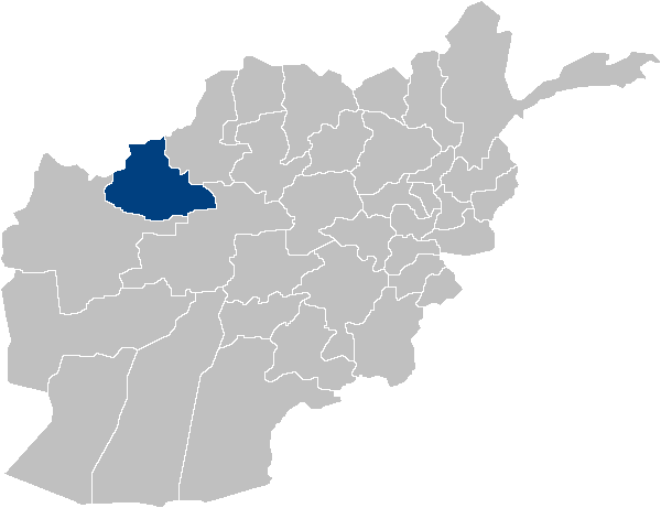 Location map for Badghis Province in Afghanistan. Original map source: Image:Afghanistan_provinces_blank.png